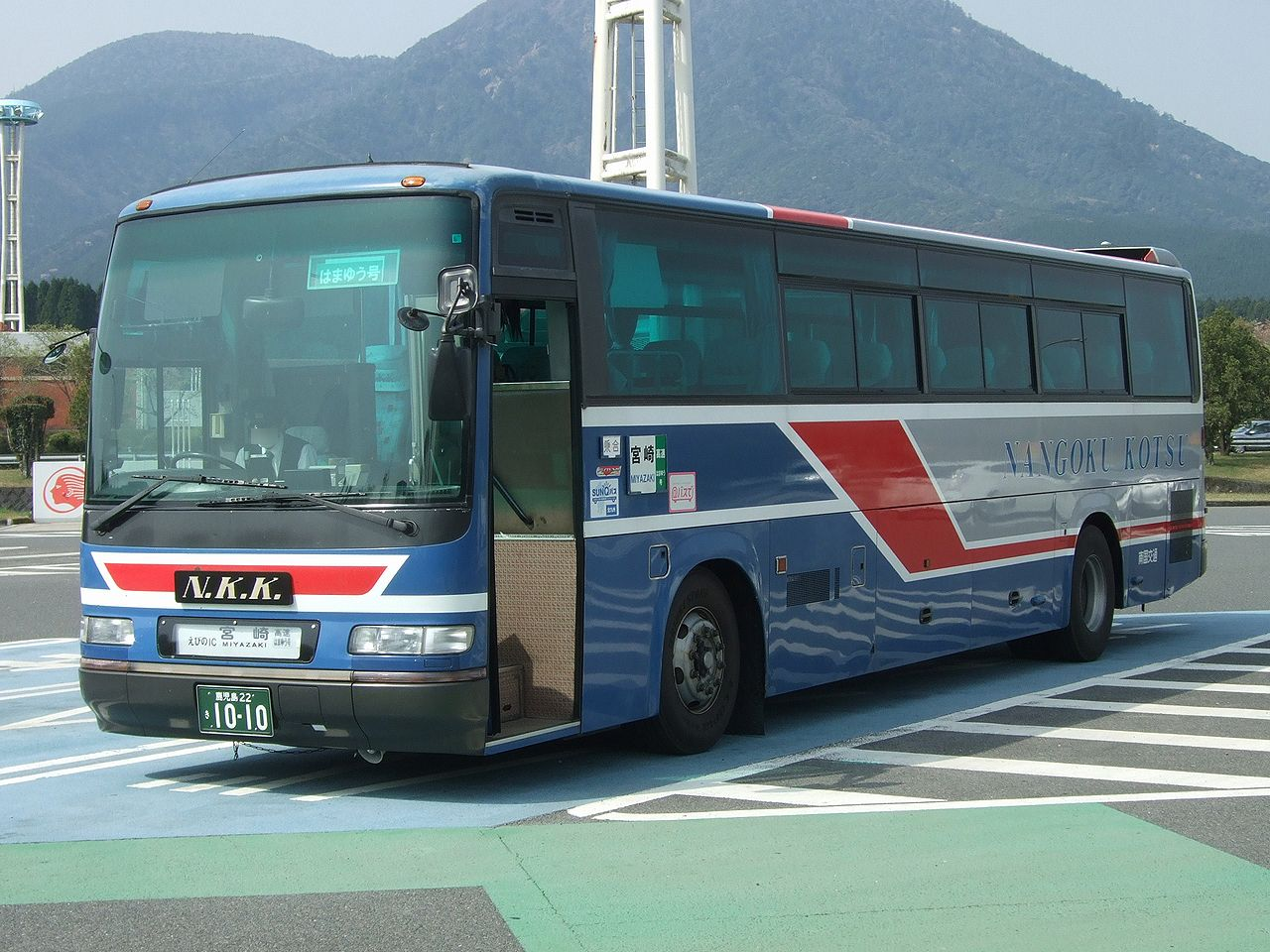 Nangoku Kotsu highway bus "Hamayuu" operating between Miyazaki City and Kagoshima City, Japan. Company:Nangoku Kotsu Use:transit bus (highway bus) Car license:KO 22 KI 1010 Belongs to:Kagoshima Depot Chassis manufacturer:Hino Type:Selega Coachbuilder:Hino Body Location:In Kirishima Service Area, Kobayashi City, Miyazaki, Japan.